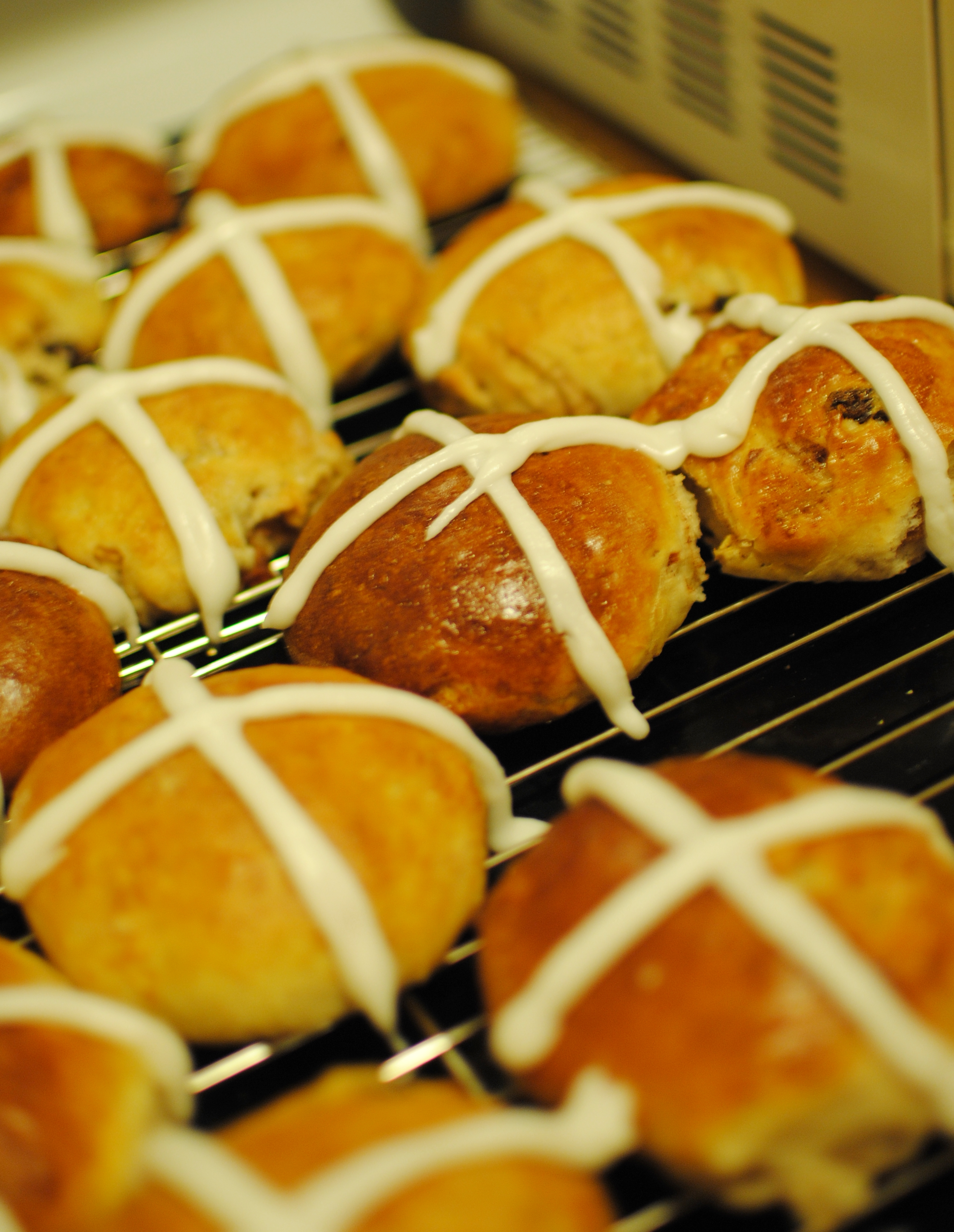 Homemade Hot Cross Buns